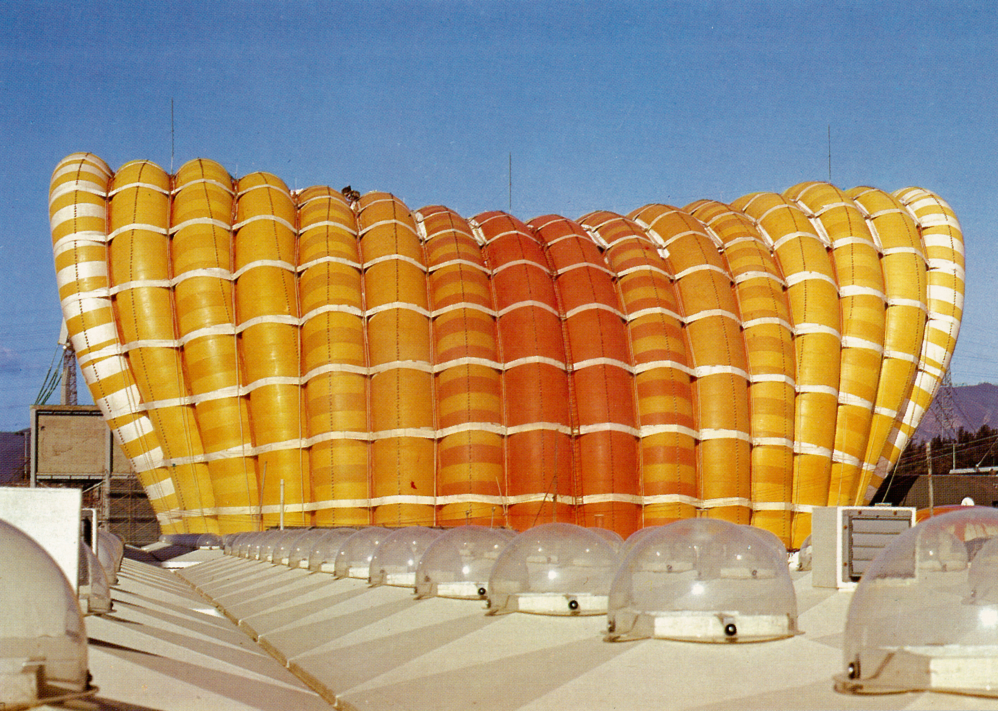 Fuji-Pavilion, Osaka Expo'70